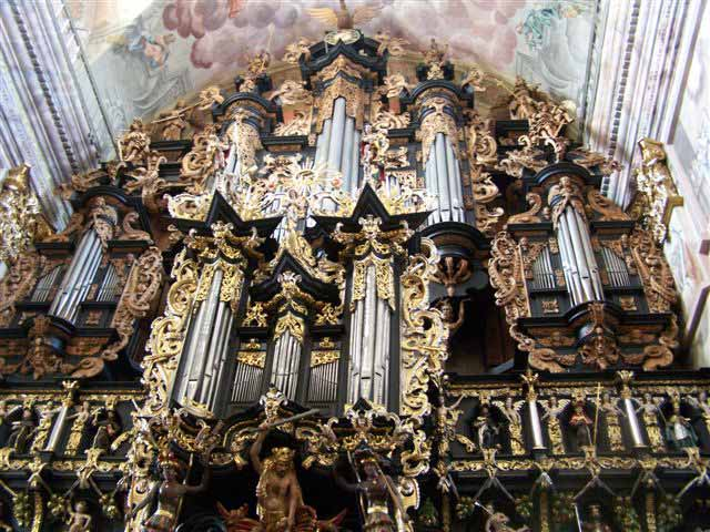 Organs in Leżajsk Poland